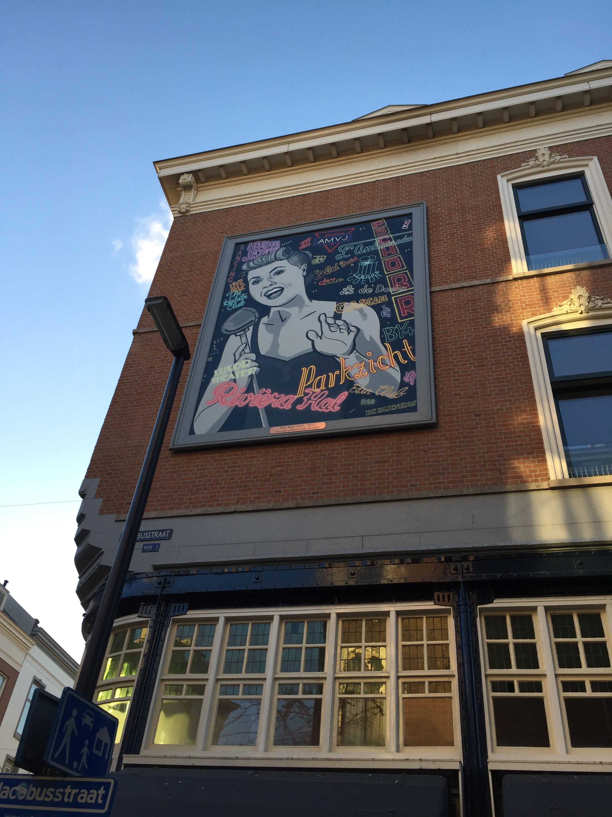 Rita Reys mural by Wilbert Plijnaar, Jacobusstraat, Rotterdam